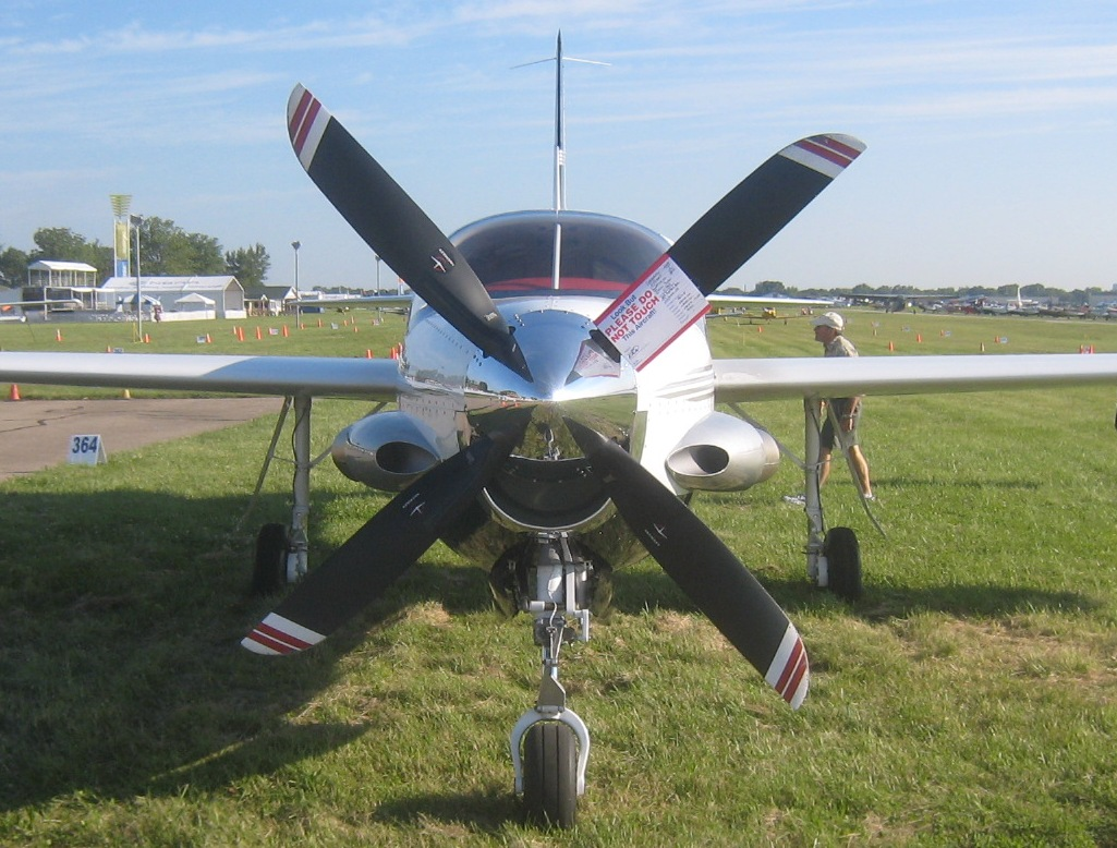 SPEEDSTAR 850 Aerostar conversion